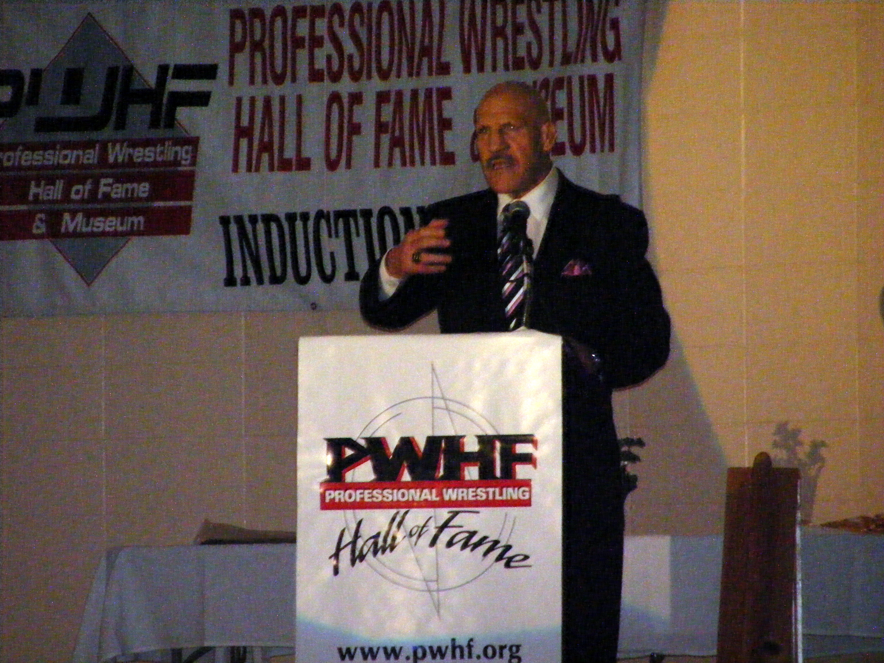 Bruno Sammartino at the 2012 Professional Wrestling Hall of Fame ceremony